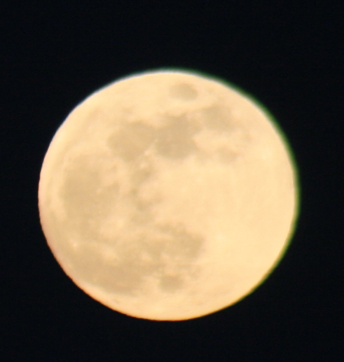 The Moon with green and blue upper rims